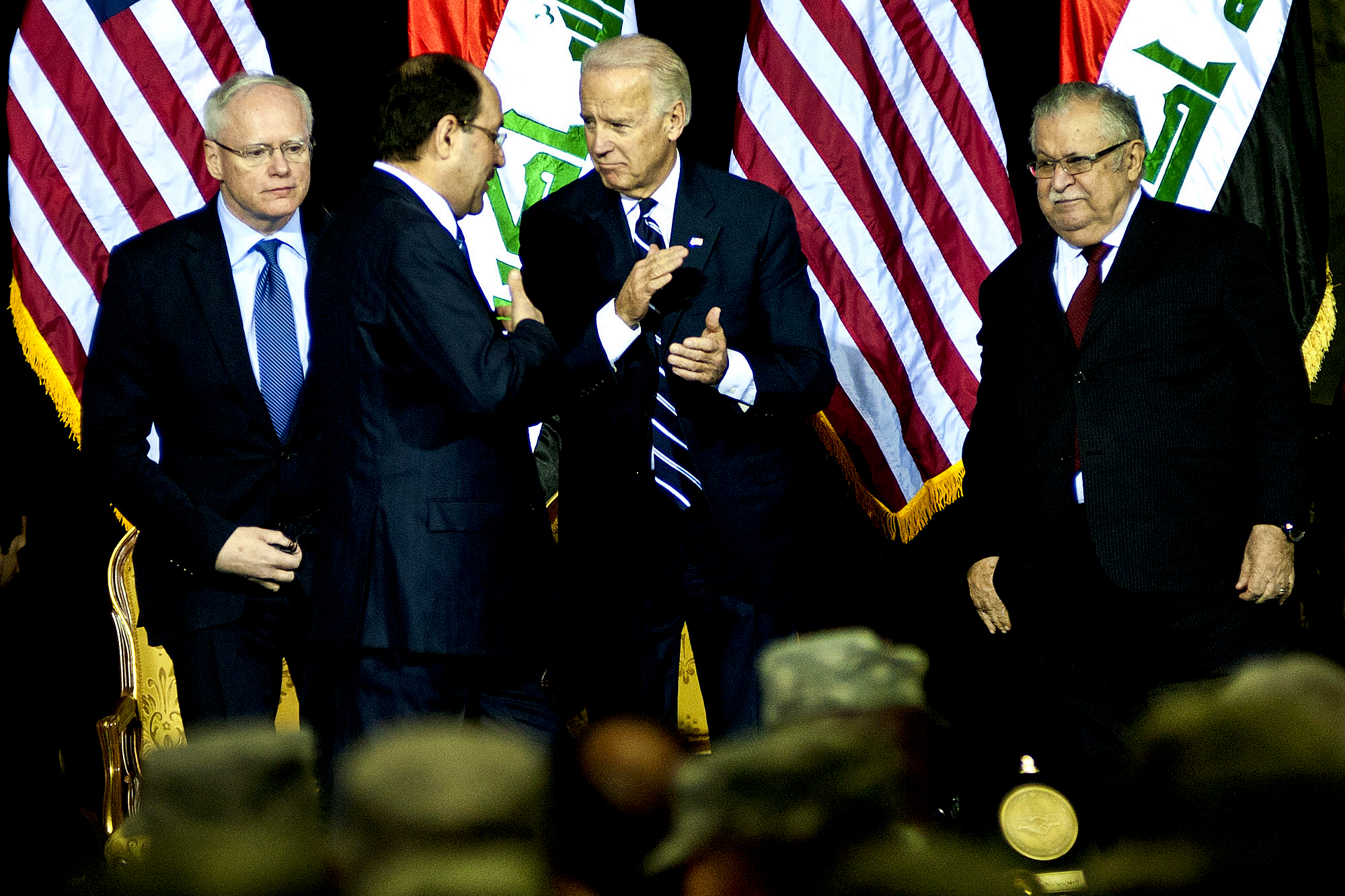 Iraqi Prime Minister Nouri al-Maliki talks to U.S. Vice President Joe Biden after gihe gave a speech during the Iraqi government's Day of Commitment ceremony in the Al Faw Palace on Victory Base Complex in Baghdad, Dec. 1, 2011. U.S. Ambassador to Iraq James F. Jeffrey, far left, and Iraqi President Jalal Talabani, far right, participated in the ceremony, which commemorated the sacrifices and accomplishments of U.S. and Iraqi service members.